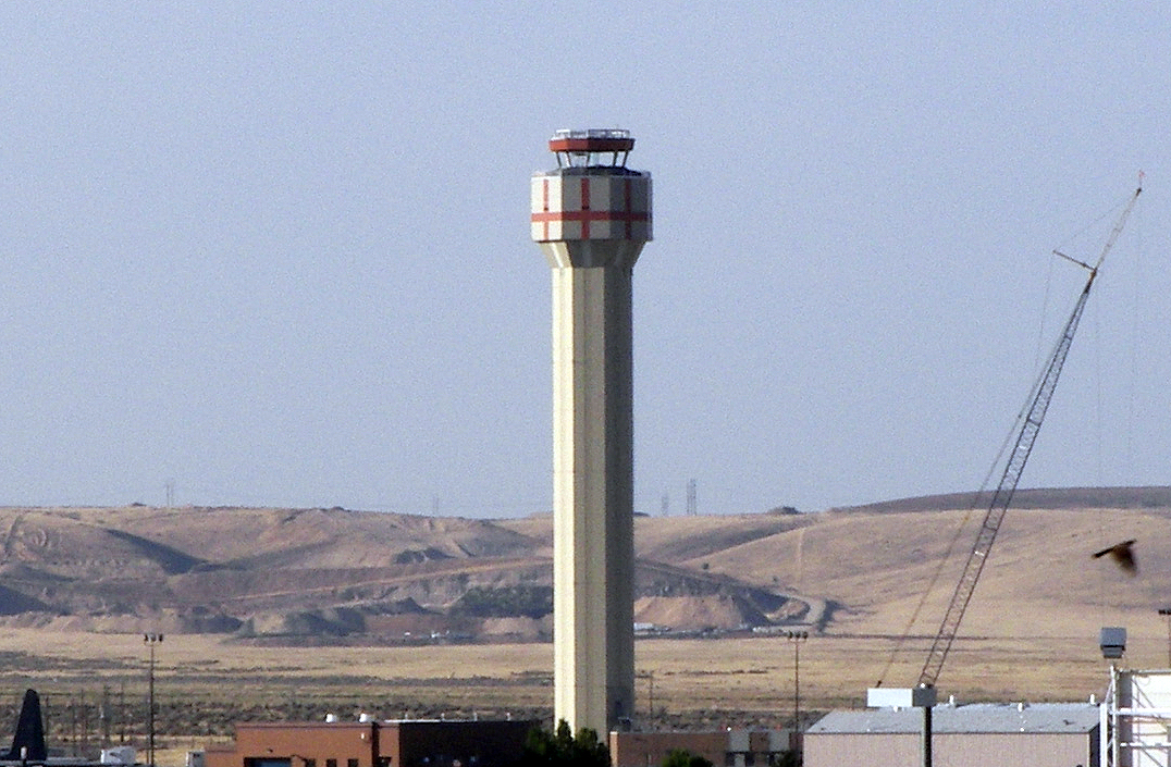 The new Boise Airport control tower under construction, Boise, Idaho, United States.